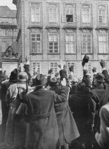 Prague Germans Health Adolf Hitler at Prague Castle on the 16th March 1939